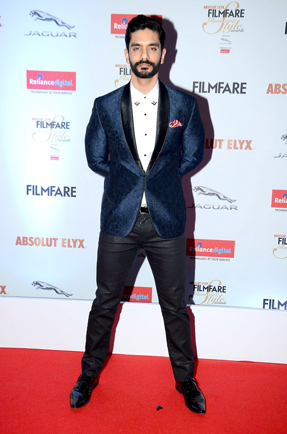 Bedi gracing ‘Filmfare Glamour & Style Awards 2016’